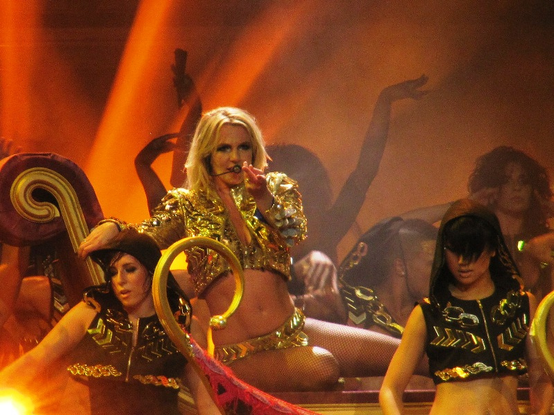 Britney Spears performing "Gimme More" in Detroit.